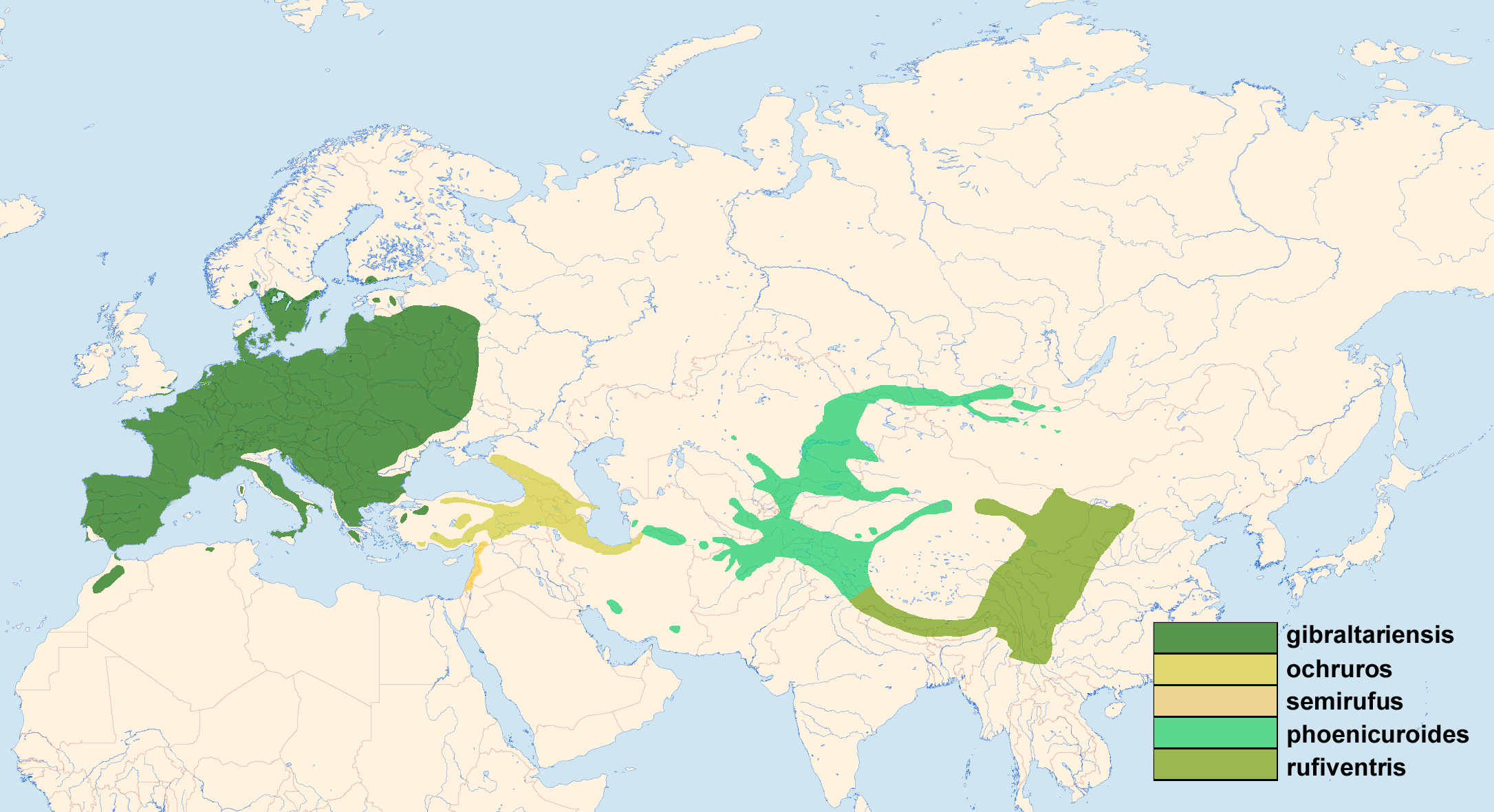 Breeding (summer) distribution map of Black Redstart Phoenicurus ochruros